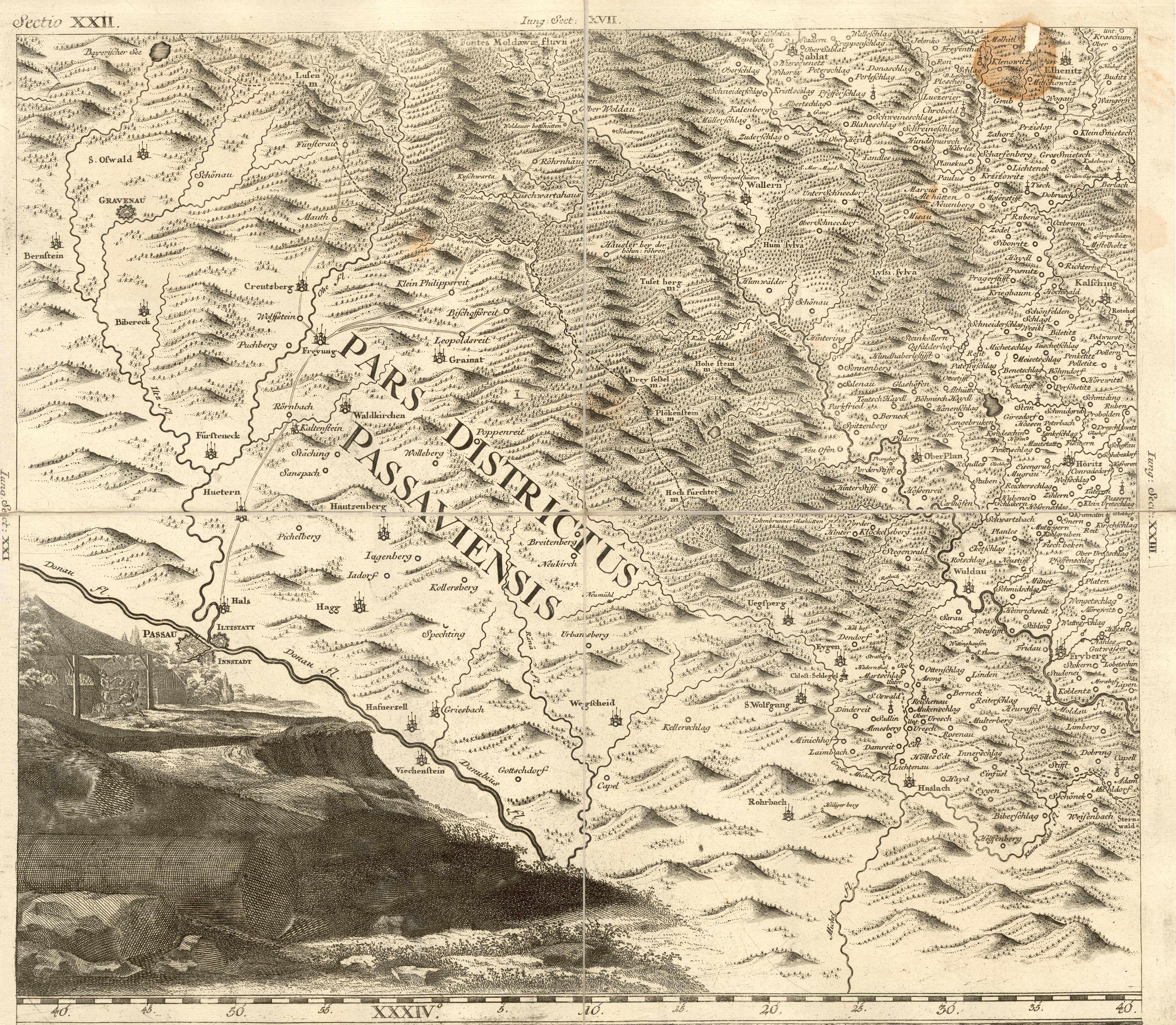 Müller's map of Bohemia.